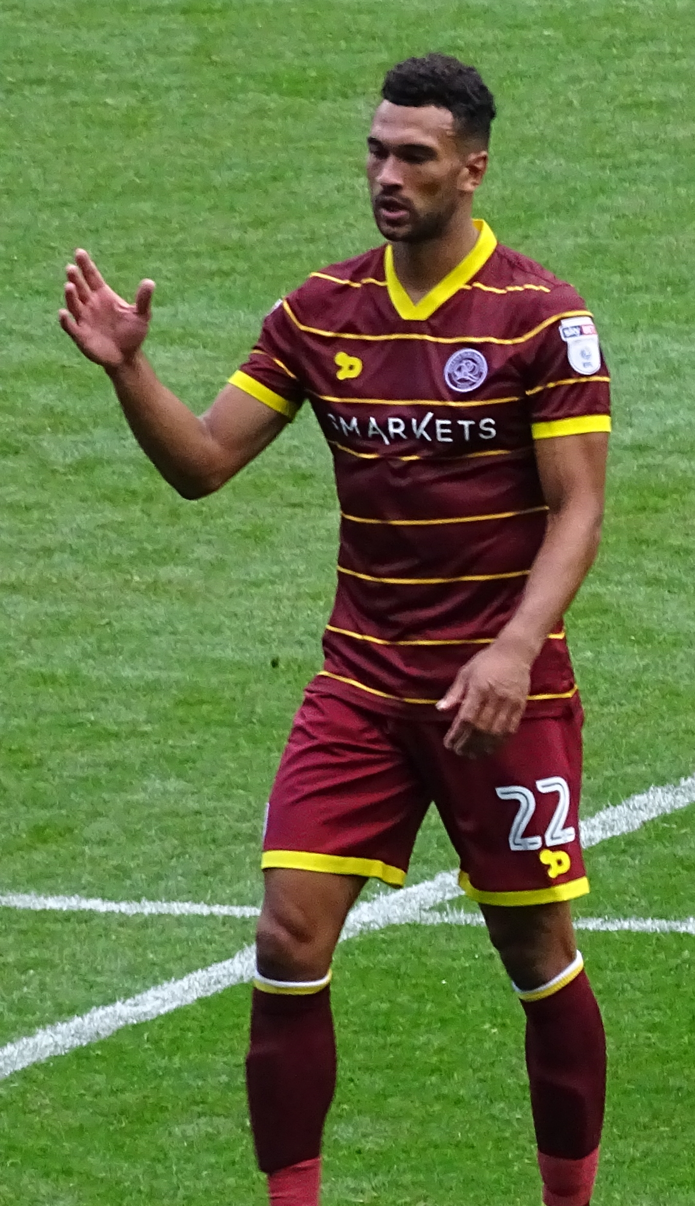 Steven Caulker playing for Queens Park Rangers against Cardiff City at the Cardiff City Stadium on 14 August 2016